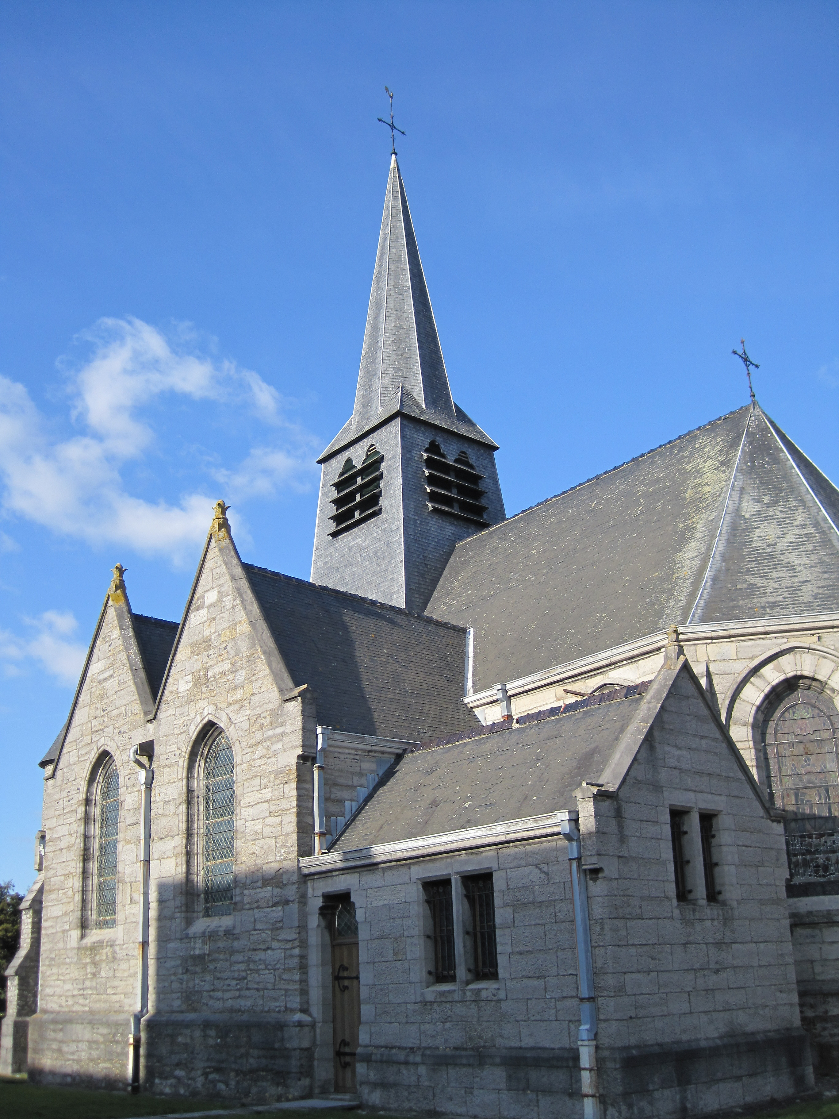 Bailleul (Belgium), the Saint Amand church (XIII/XVth centuries).